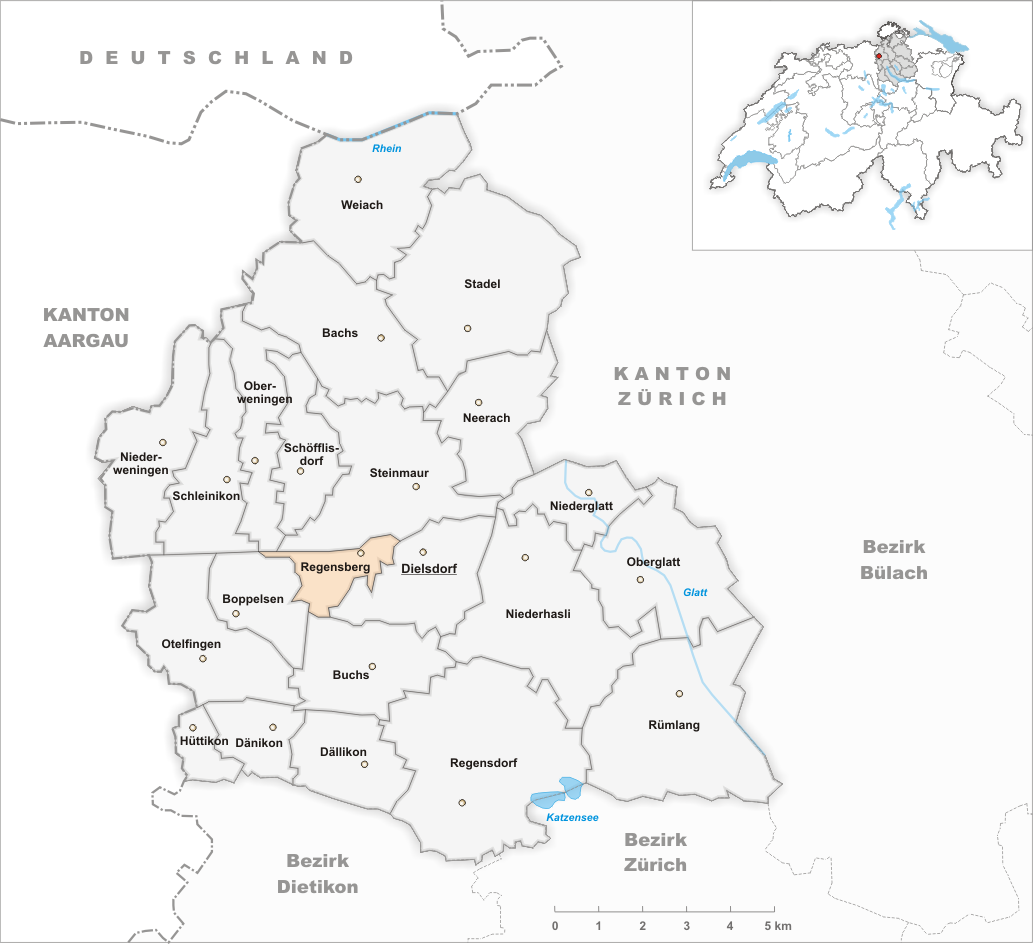 Municipality Regensberg